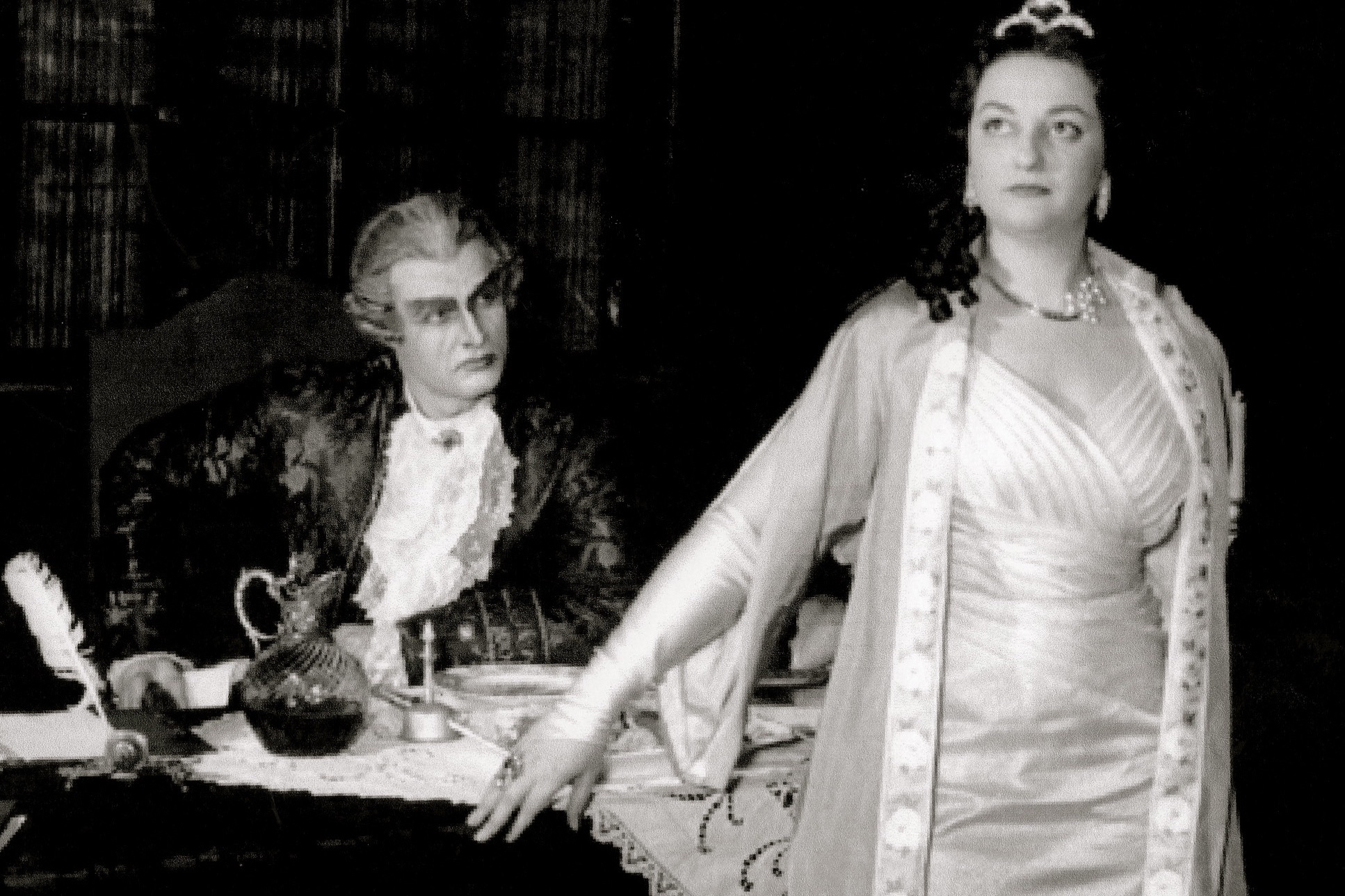 Claude Heater as Scarpia with Montserrat Caballé as Tosca in Basel 1956